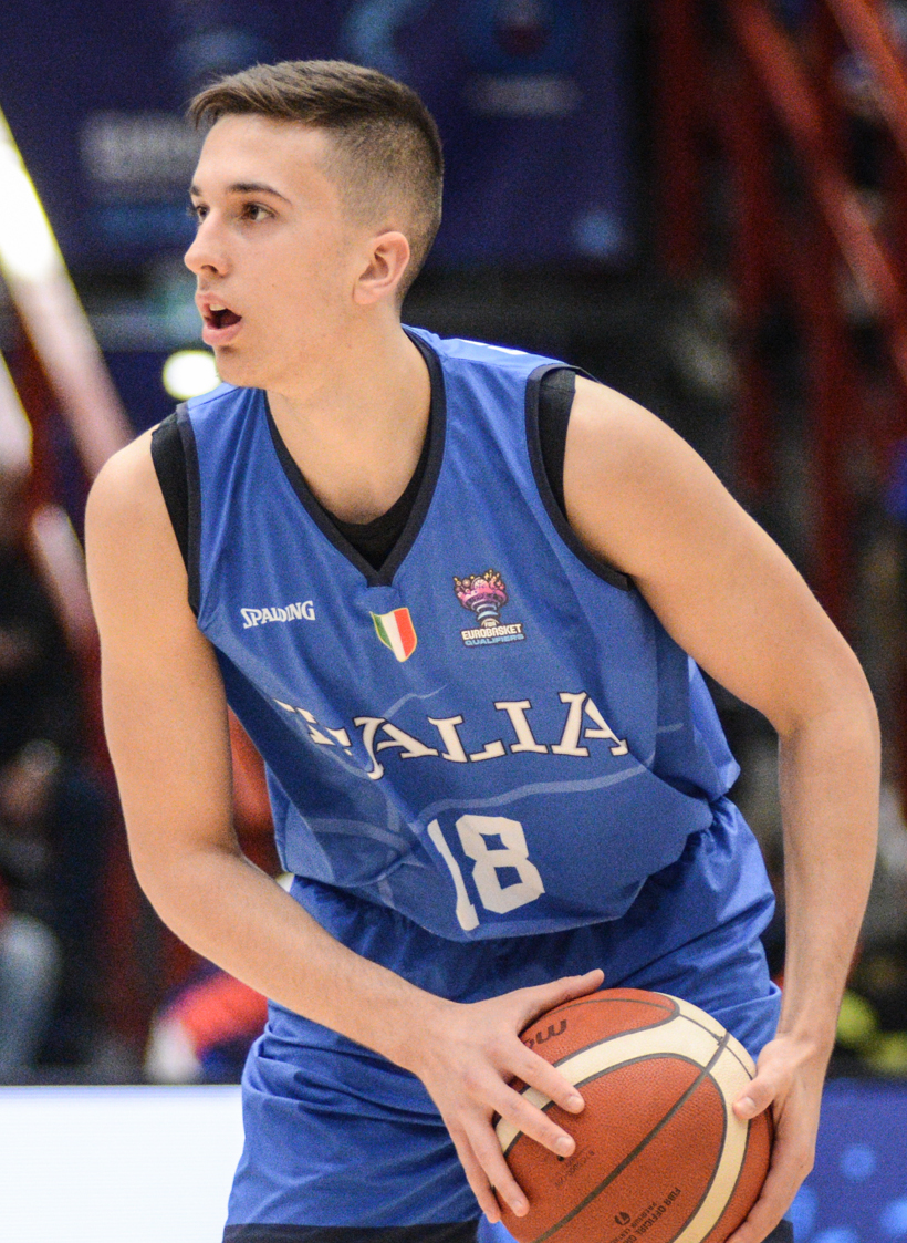 Matteo Spagnolo